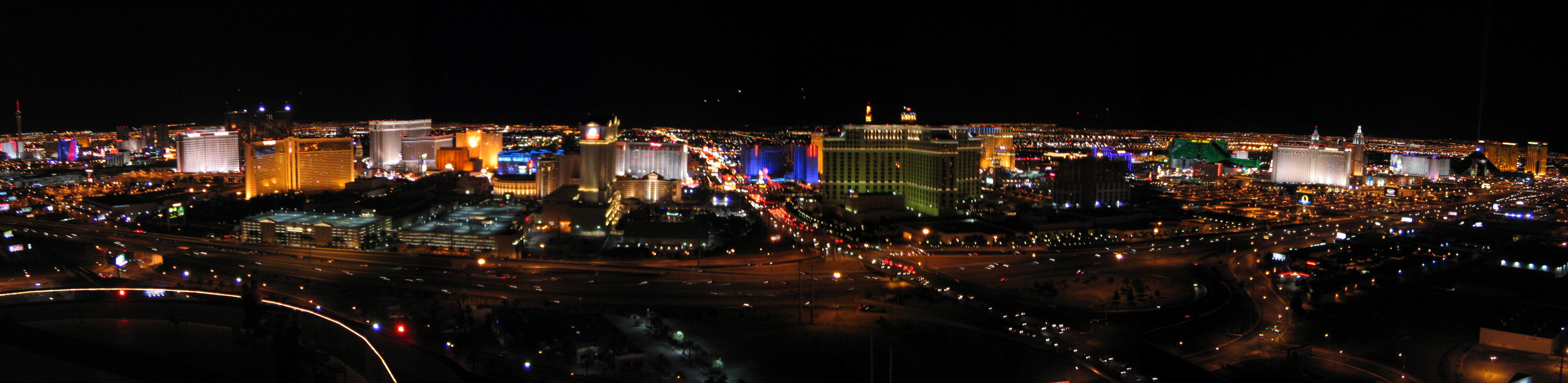 Vegas Strip: from the top of the Rio